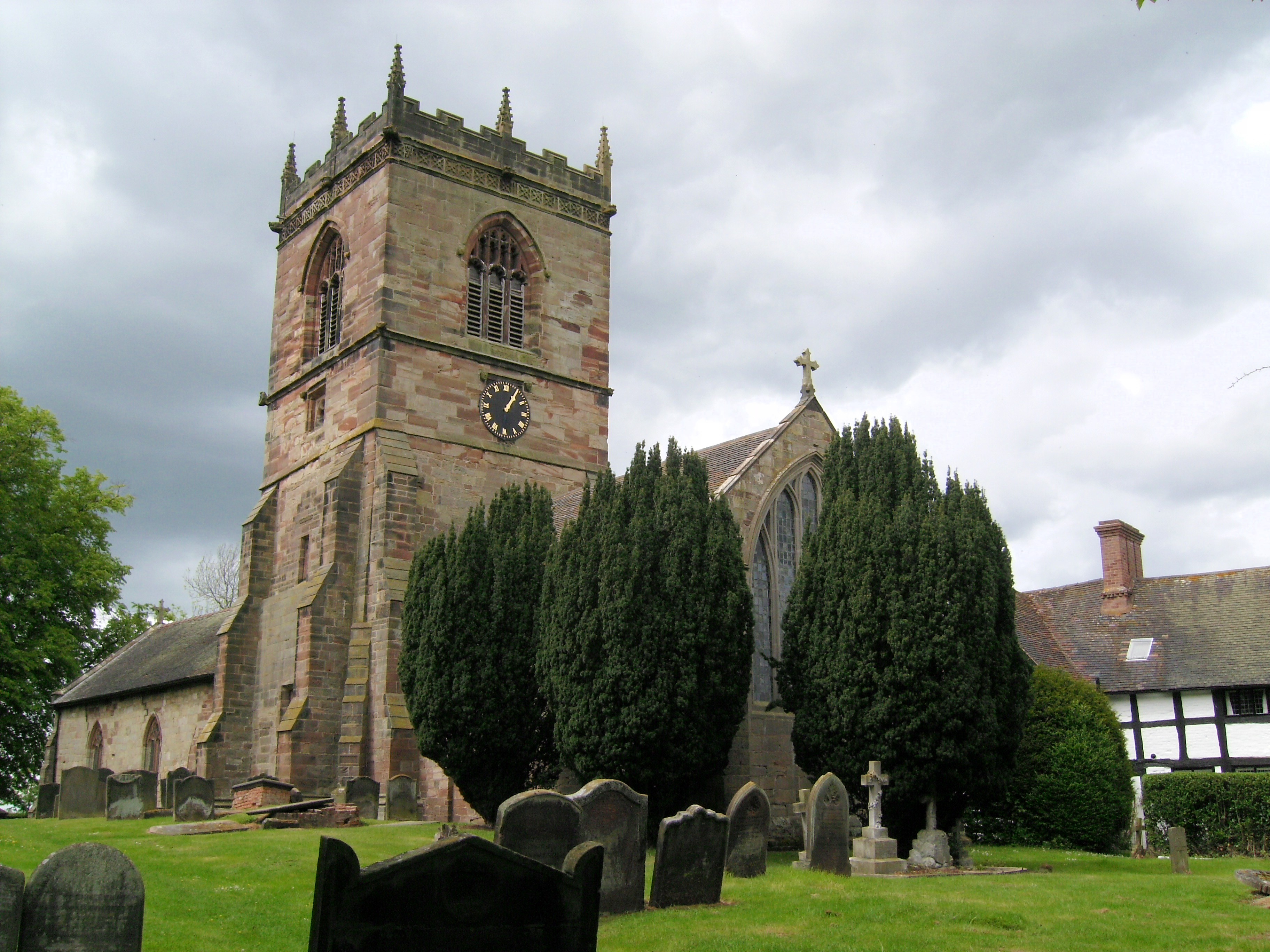 All Saints' parish church, Lapley, Staffordshire, seen from the east